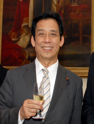 Tatsuo Kawabata, Minister for Internal Affairs and Communications, met David Warren, Ambassador to Japan, at the special Diamond Jubilee party on June 6, 2012.